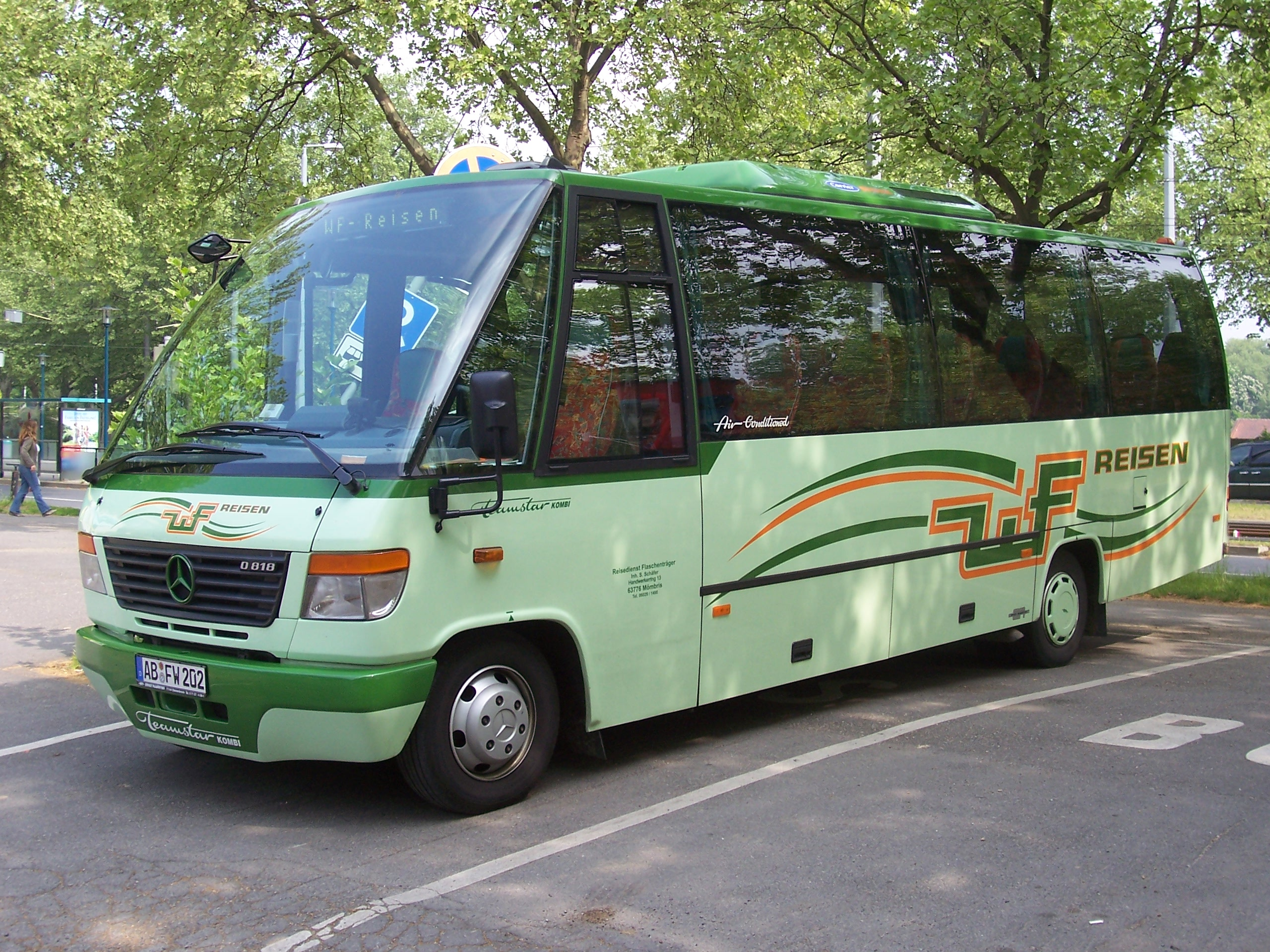 A Ernst Auwärter Teamstar Kombi Minibus build from a Mercedes-Benz 818D Vario in Mannheim, Germany.